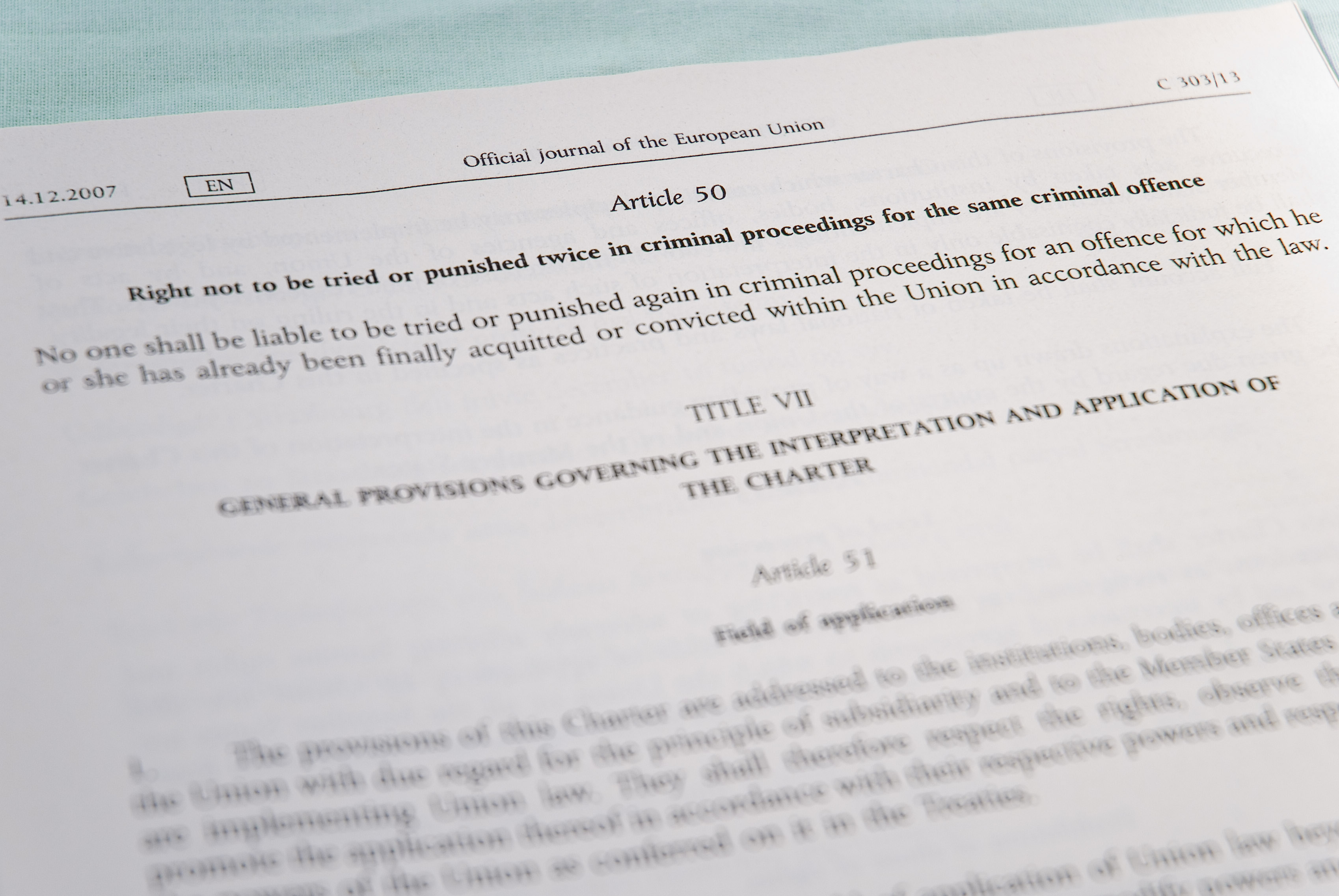 Article 50 of the Charter of Fundamental Rights of the European Union